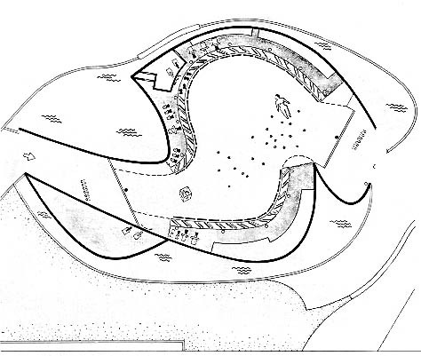 Corte en planta